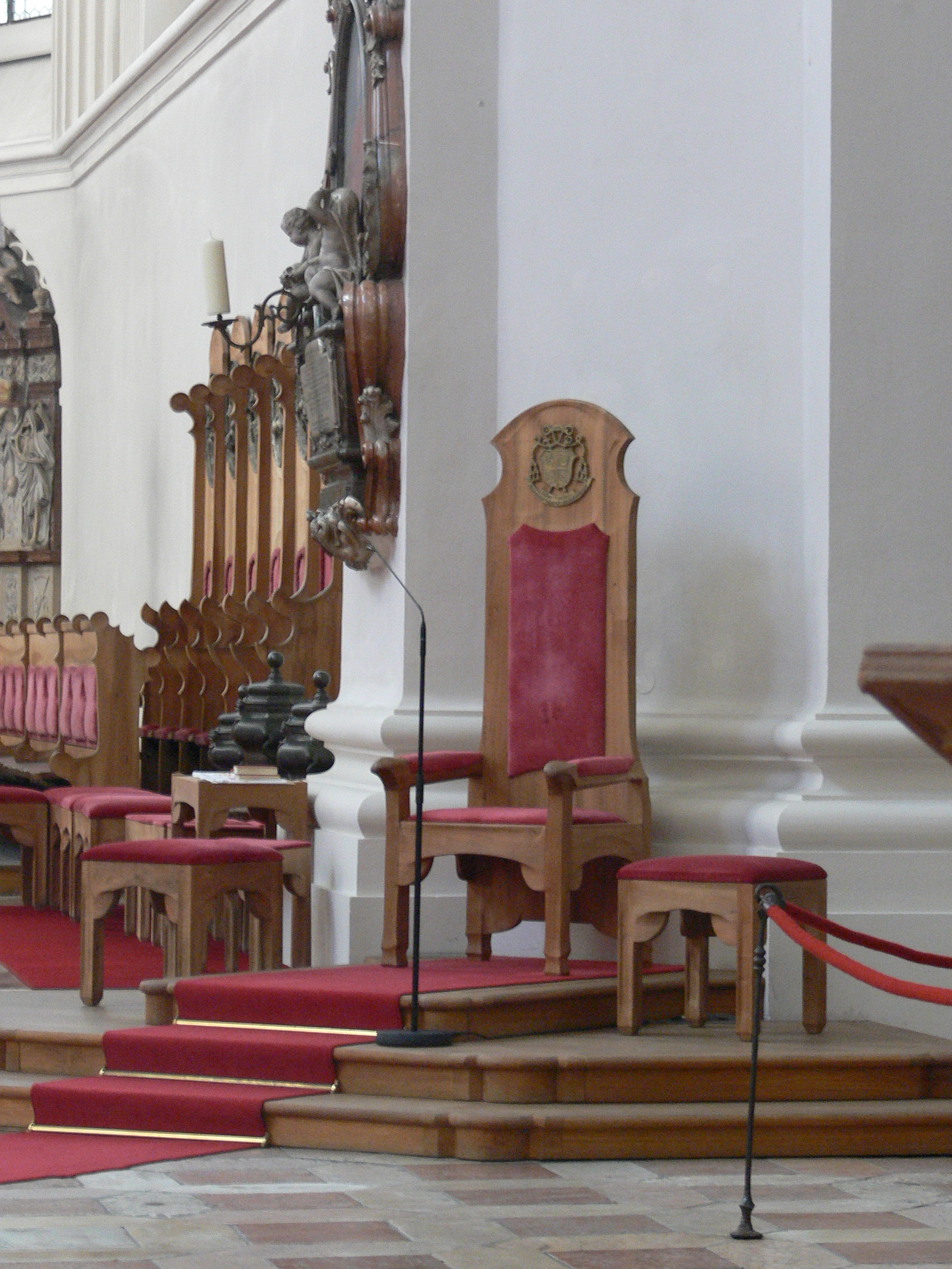 Passau, Dom St. Stephan Kathedra (Bischofsthron)